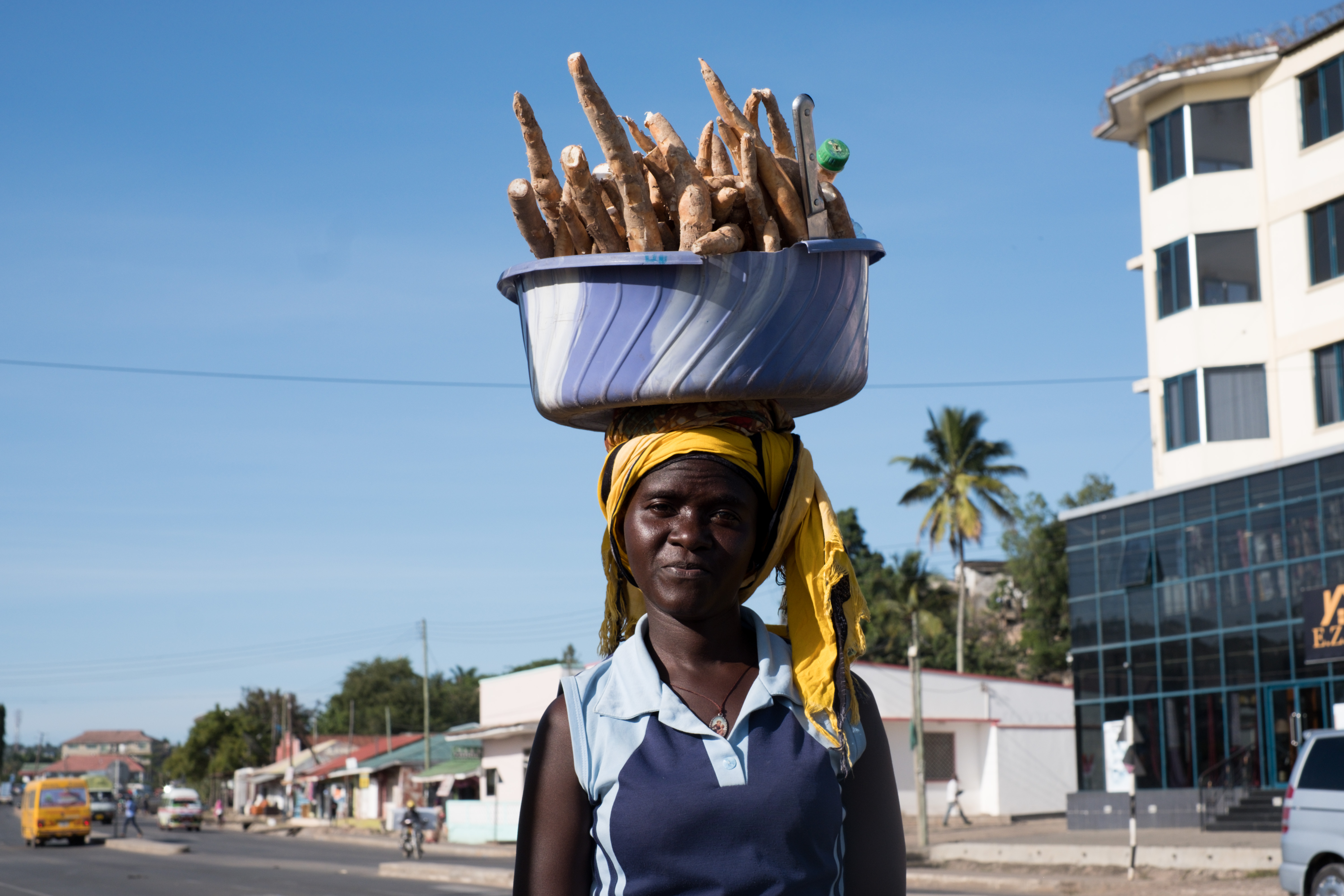 As vendors and small business grow in the region of Mwanza, women have also emerged to engage in small human-powered business to earn some money for their families. This is an image with the theme "Africa on the Move or Transport" from: Tanzania